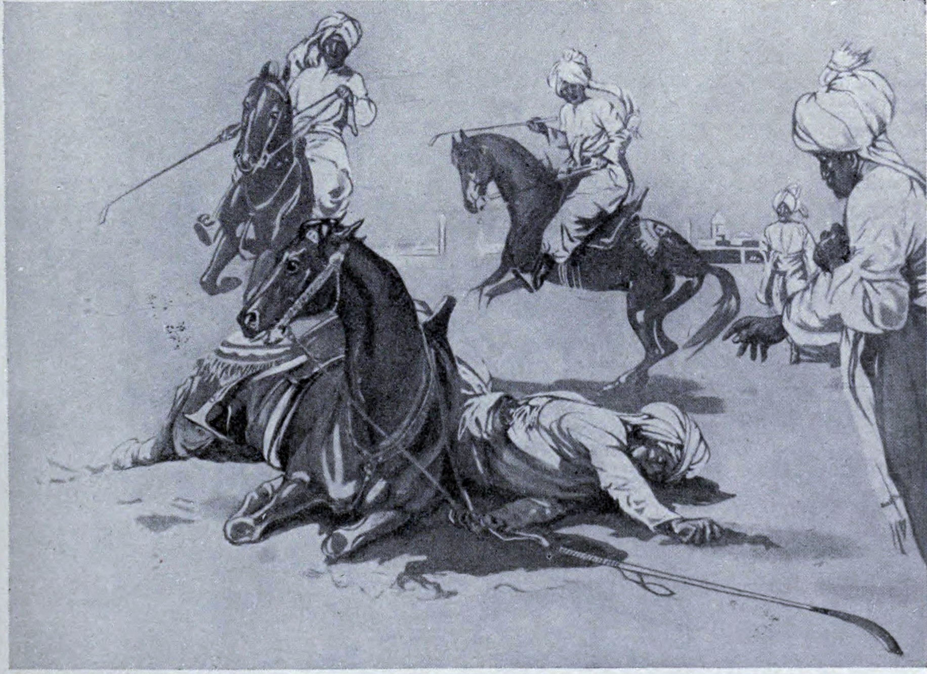 Hutchinson's story of the nations, containing the Egyptians, the Chinese, India, the Babylonian nation, the Hittites, the Assyrians, the Phoenicians and the Carthaginians, the Phrygians, the Lydians, and other nations of Asia Minor.